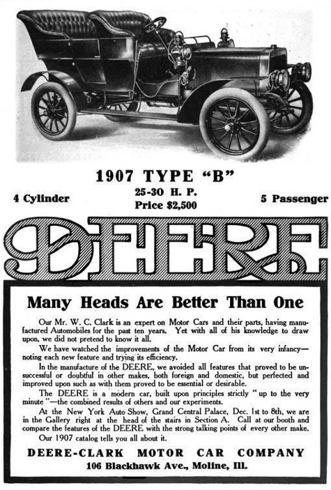 Deere-Clark Motor Car Company of Moline, Illinois - 1907